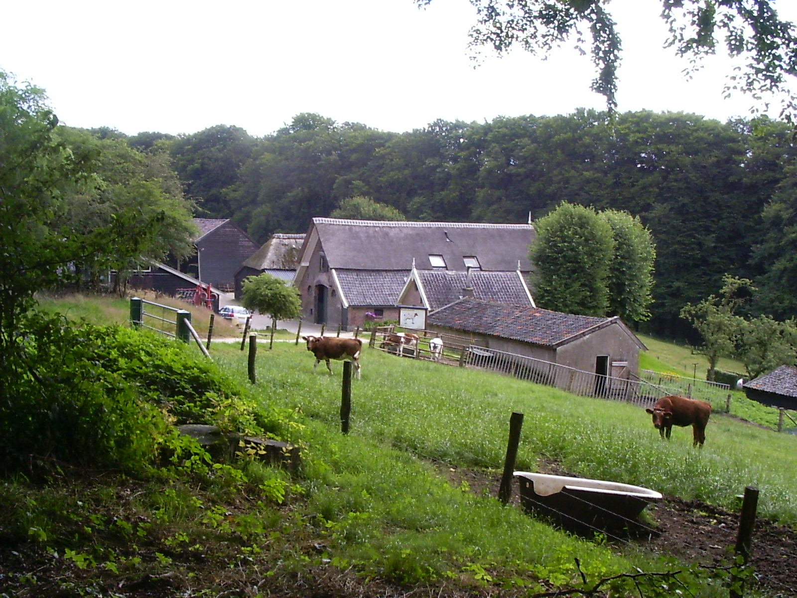 Farm Loobergen, Mariëndaal estate, Arnhem